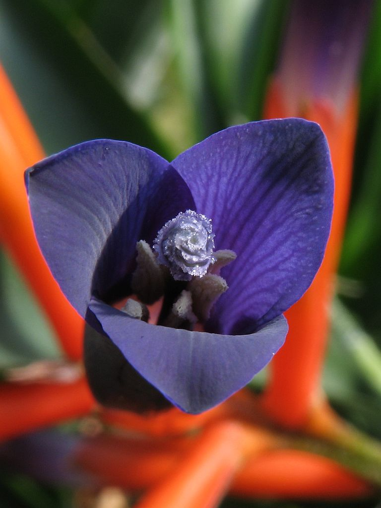 Quesnelia liboniana in cultivation at the Botanical Garden of Heidelberg, Germany.